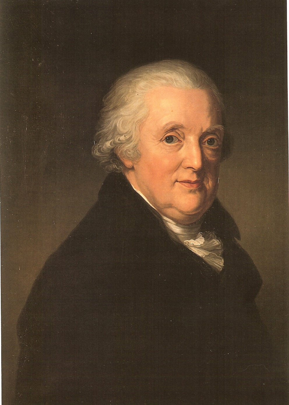 portrait of Christian Matthias Schröder (1742-1821), merchant and mayor of Hamburg